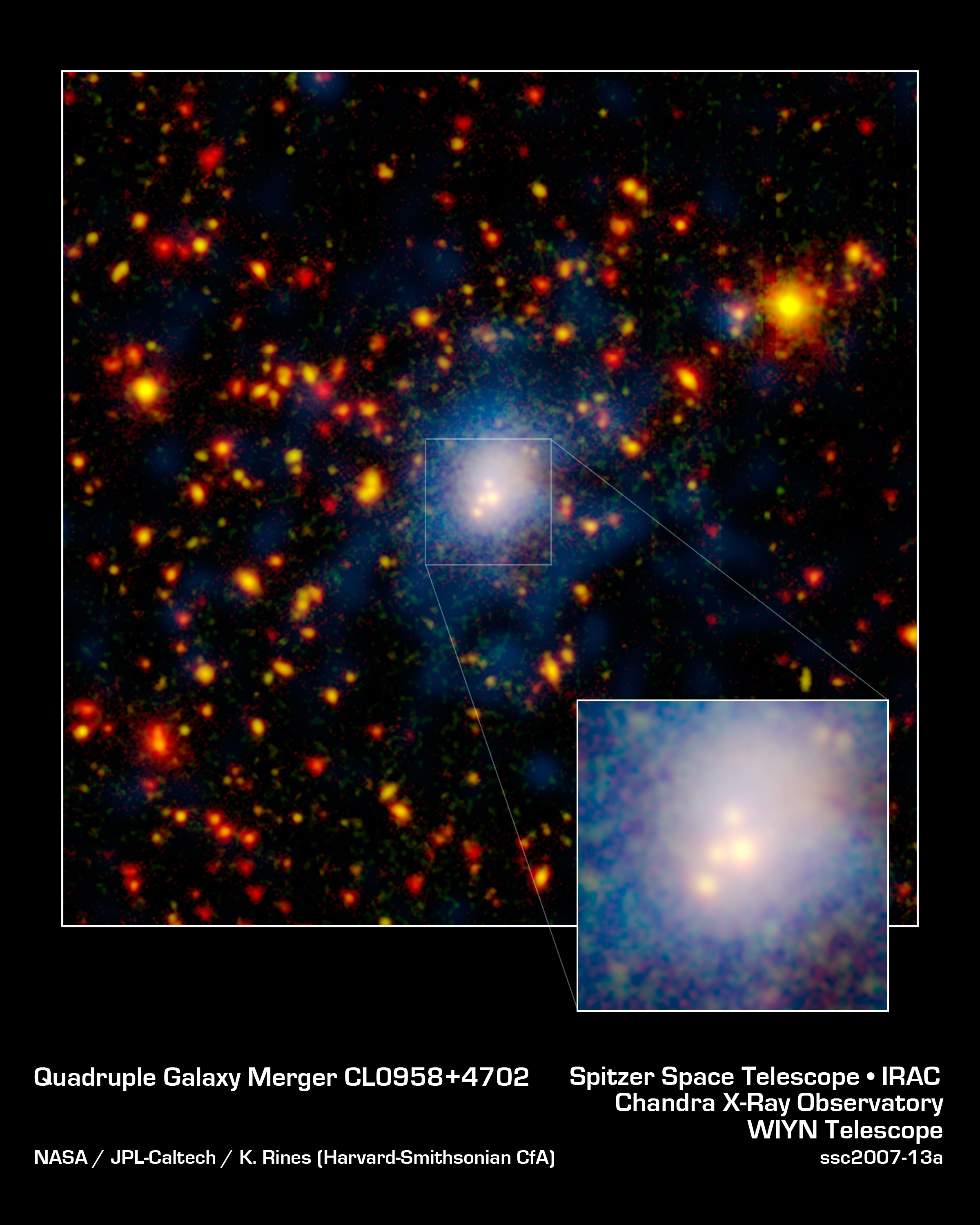 One of the biggest galaxy collisions ever observed is taking place at the center of this image. The four white blobs in the middle are large galaxies that have begun to tangle and ultimately merge into a single gargantuan galaxy. The whitish cloud around the colliding galaxies contains billions of stars tossed out during the messy encounter. Other galaxies and stars appear in yellow, orange and red hues. Blue shows hot gas that permeates this distant region of tightly packed galaxies. NASA's Spitzer Space Telescope spotted the four-way collision, or merger, in a giant cluster of galaxies, called CL0958+4702, located nearly five billion light-years away. The dots in the picture are a combination of galaxies in the cluster; background galaxies located behind the cluster; and foreground stars in our own Milky Way galaxy. Infrared data from Spitzer are colored red in this picture, while visible-light data from a telescope known as WIYN are green. Areas where green and red overlap appear orange or yellow. Since most galaxies in the cluster contain old stars that are visible to Spitzer and WIYN, those galaxies appear orange. Blue represents X-ray light captured by NASA's Chandra X-ray Observatory. The colliding galaxies appear white because they are in areas where all the colors overlap. The WIYN telescope, located near Tucson, Ariz., is owned and operated by the WIYN Consortium, which consists of the University of Wisconsin, Indiana University, Yale University, and the National Optical Astronomy Observatory.